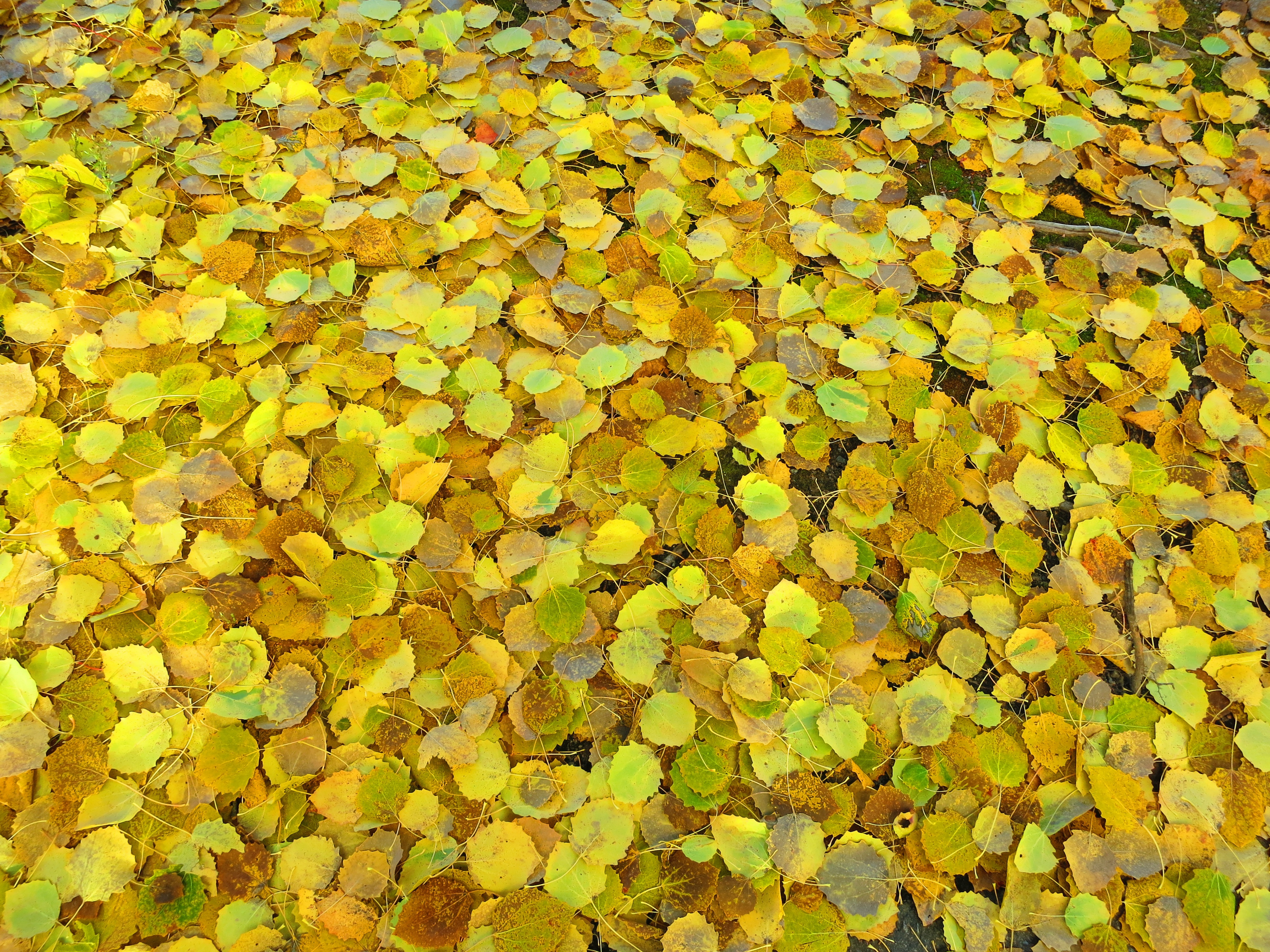 Populus tremula ‘Erecta’ leaves in October (Hyvinkää, Finland)